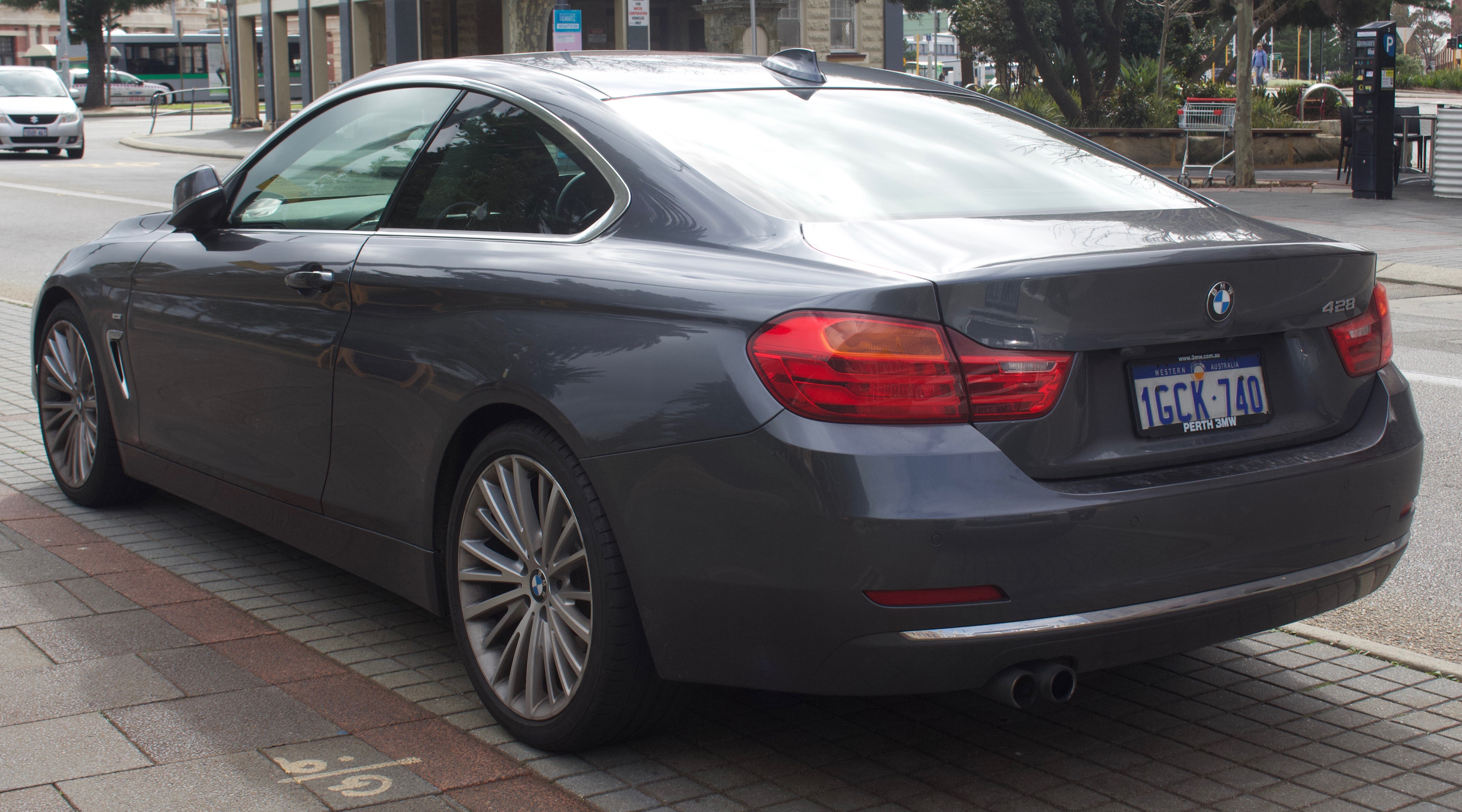 2016 BMW 428i (F32) Luxury Line coupe. Photographed in Fremantle, Western Australia, Australia.